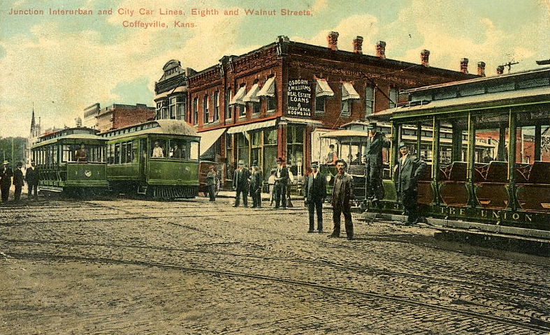 Coffeyville KS